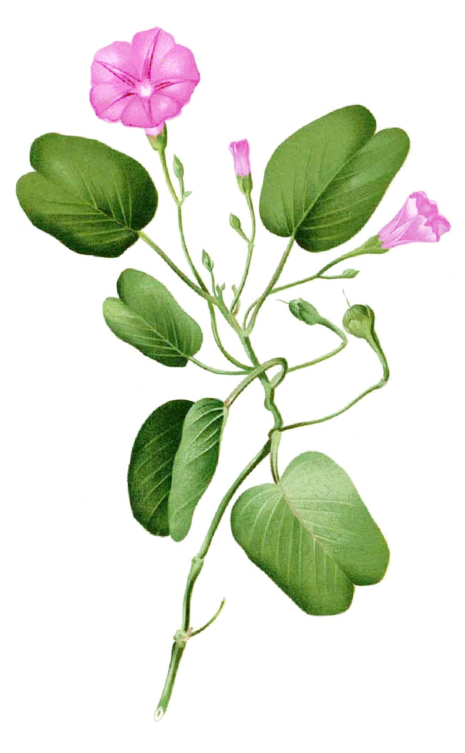 Plate from book